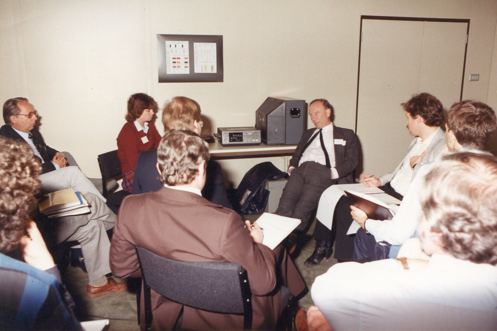 Donald Michie teaching a group of industrial Journeyman students at Turing Institute